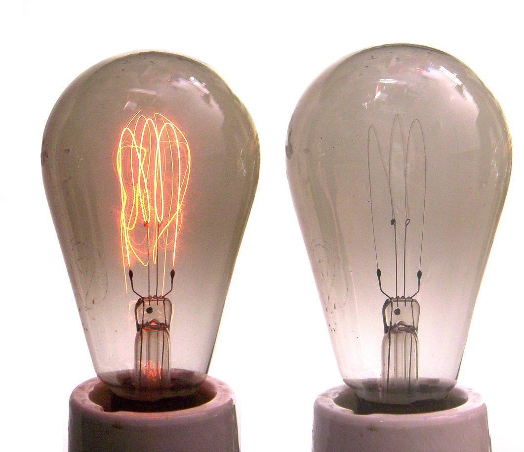 carbon filament lamp, grey coloured bulb results from sublimated carbon, which has been deposited at the inner glass surface